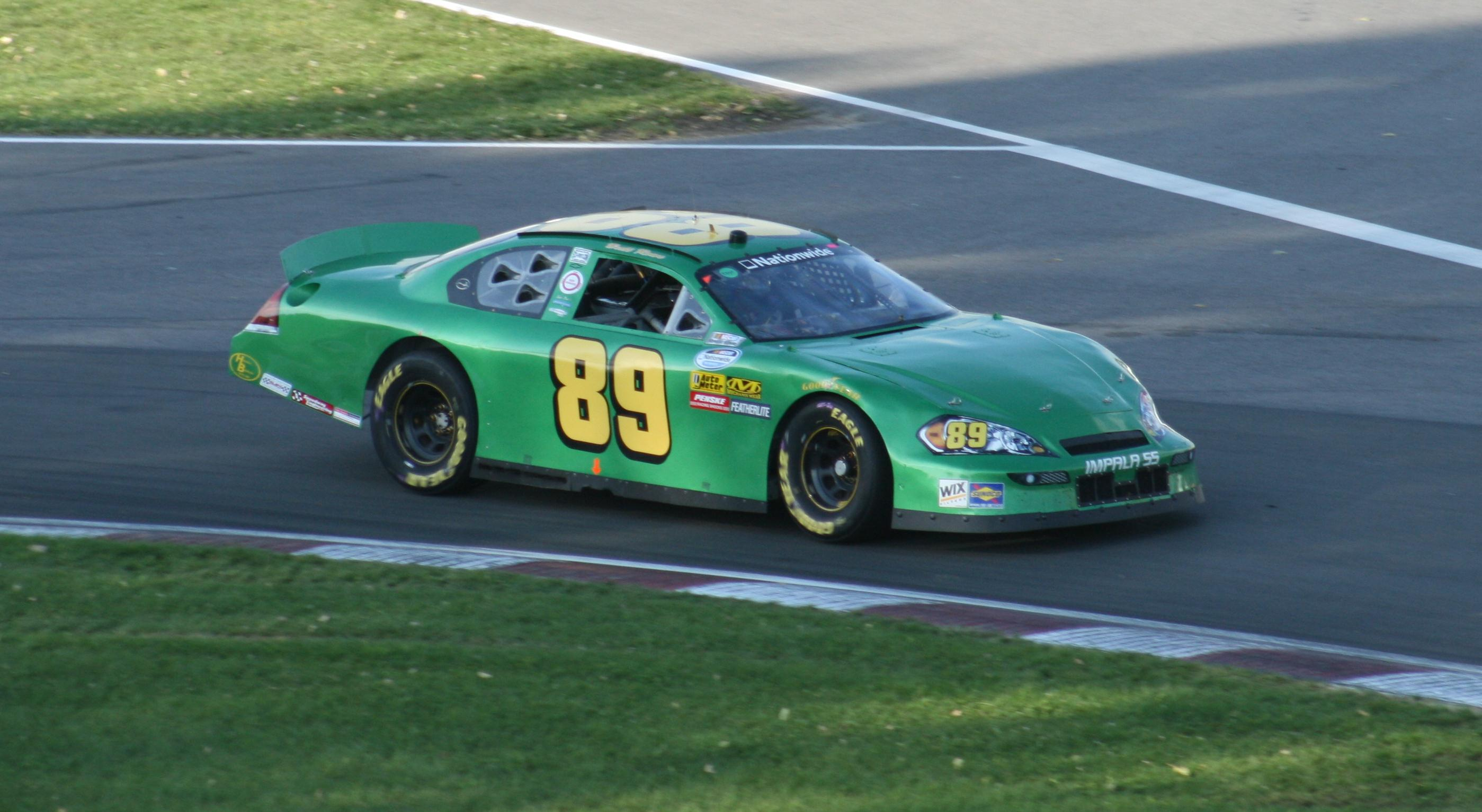 Brett Rowe in the qualification for the 2010 NAPA Auto Parts 200 at the Circuit Gilles Villeneuve in Montreal.